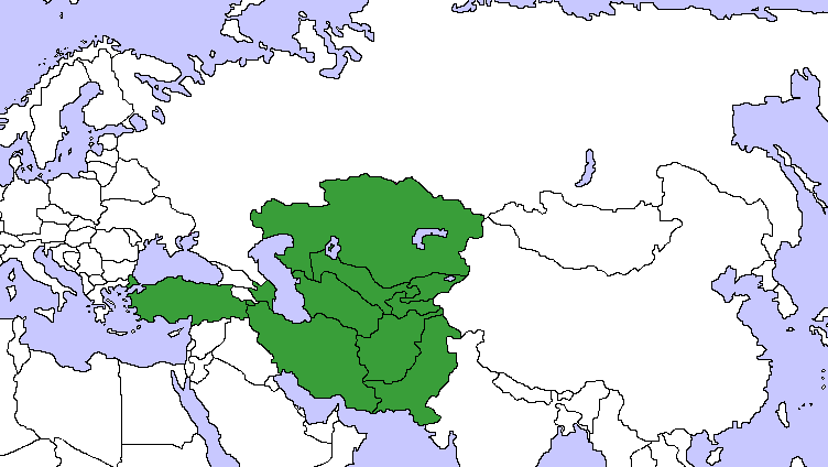 Map of the Economic Cooperation Organization. Created by User:Aris Katsaris, by modifying Image:Turkestan.png. Aris Katsaris 06:04, 15 March 2006 (UTC)